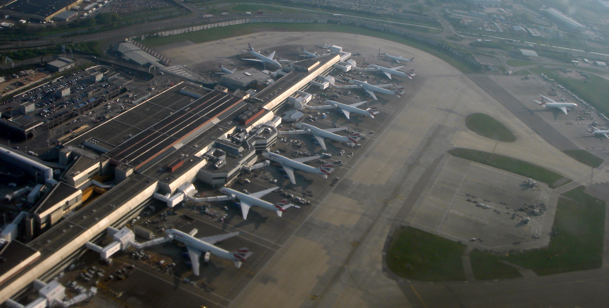 Aerial view of the London Heathrow Airport with several British Airways planes at Terminal 4